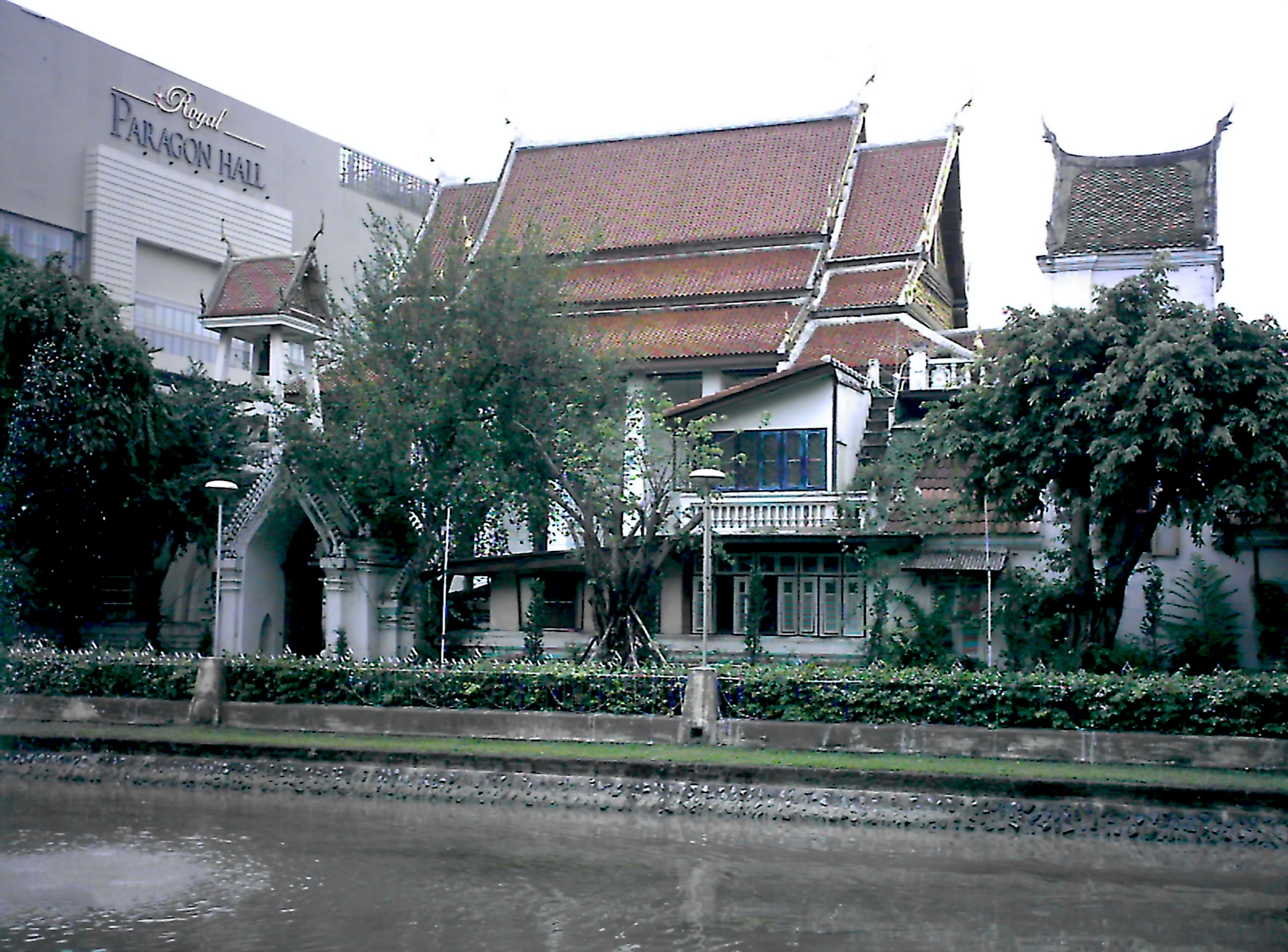 Main Hall of Wat Pathum Wana Ram, Bangkok, Thailand 中文（香港）: 泰國，曼谷，巴吞哇那南寺的大殿